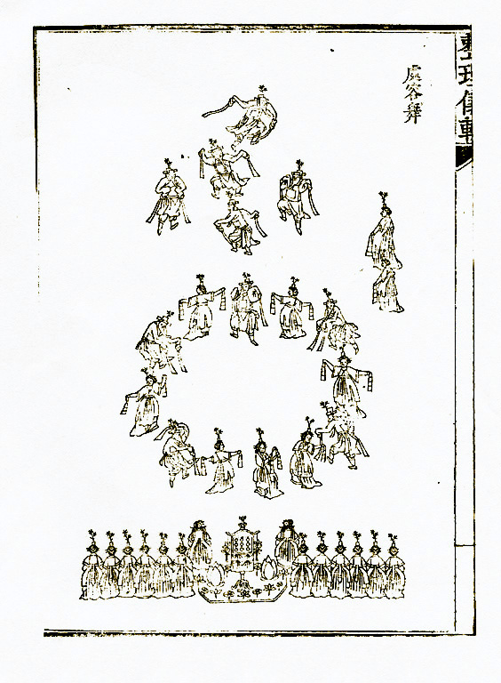 Cheoyongmu (The Dance of Cheoyong) description in the book titled "Wonhaeng Eulmyo Jeongri Uigwe"